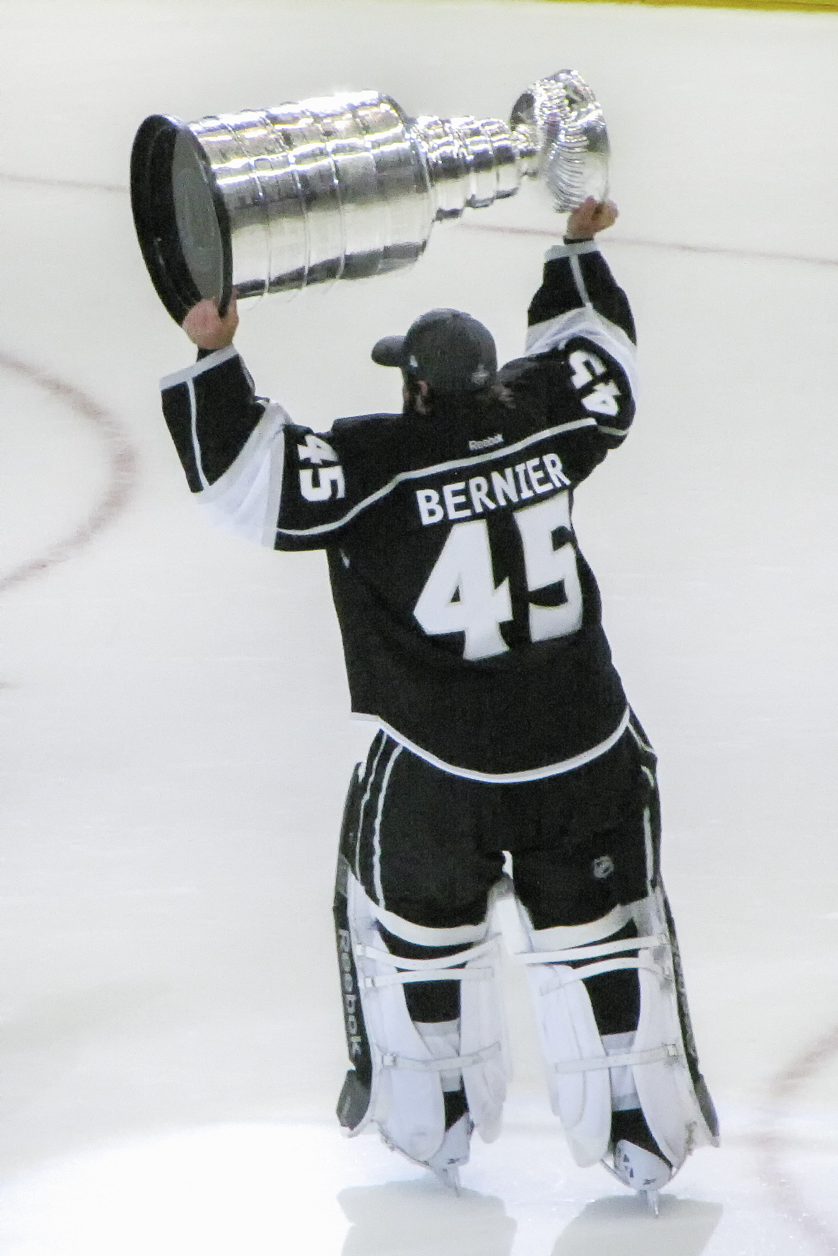 In April 2013 the Kings posted a nice video about receiving The Stanley Cup